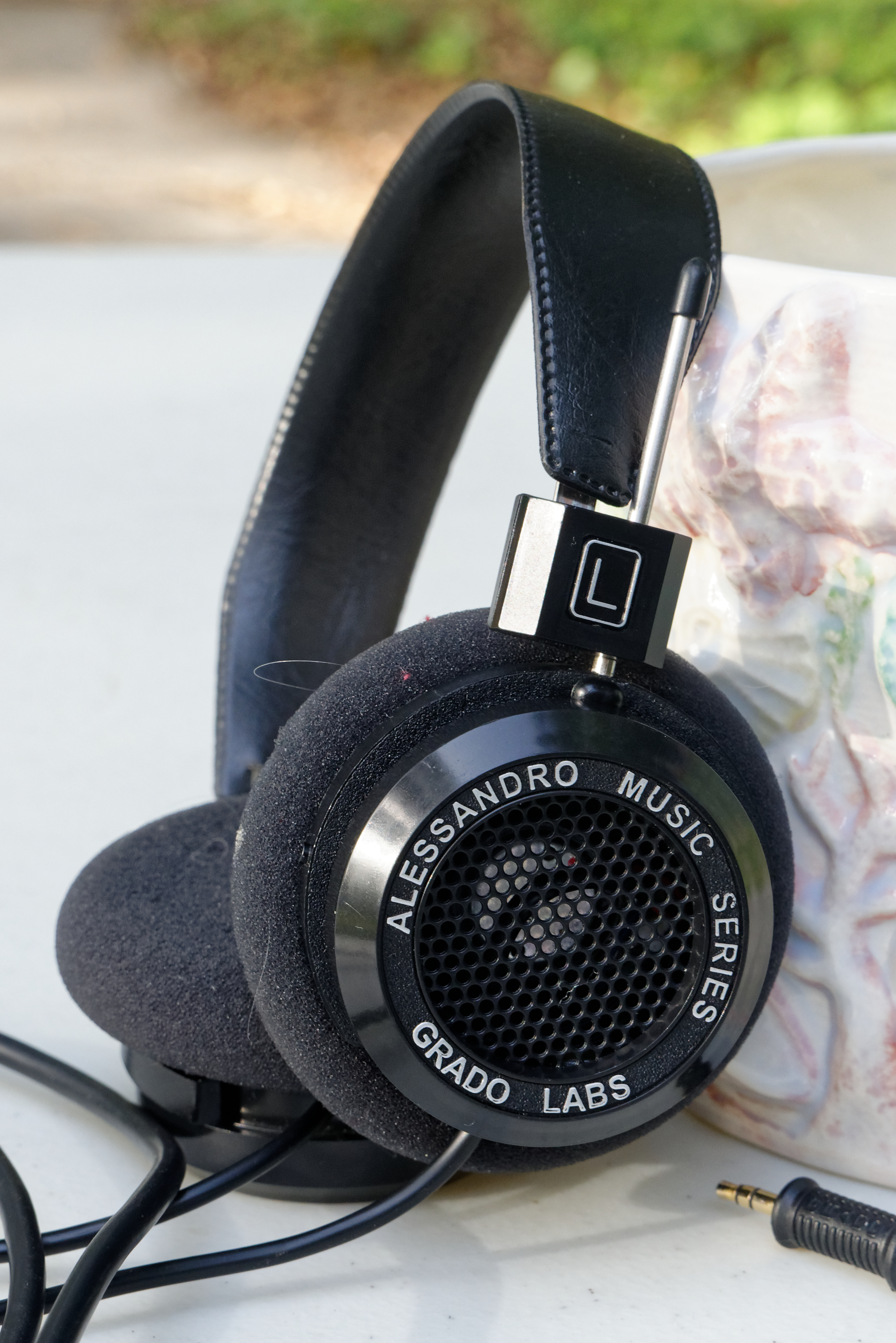 Grado Labs Alessandro Music Series headphones